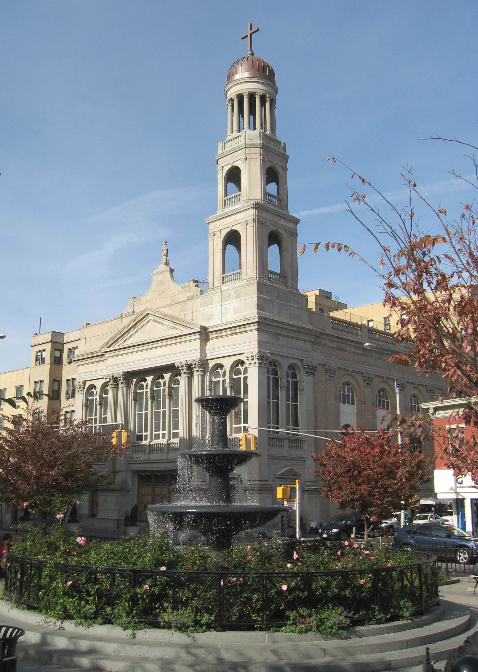 Looking west across Father Demo Square at Our Lady of Pompeii Church in Greenwich Village, New York City on a sunny, late morning.